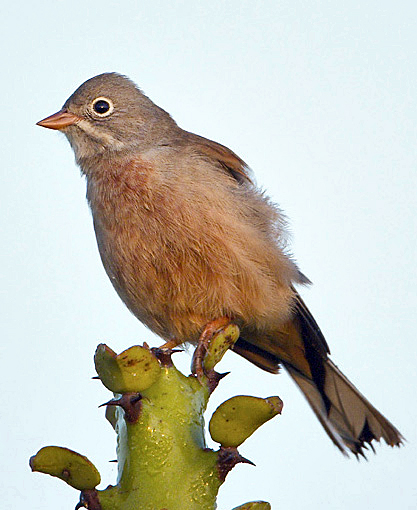 Grey-necked bunting